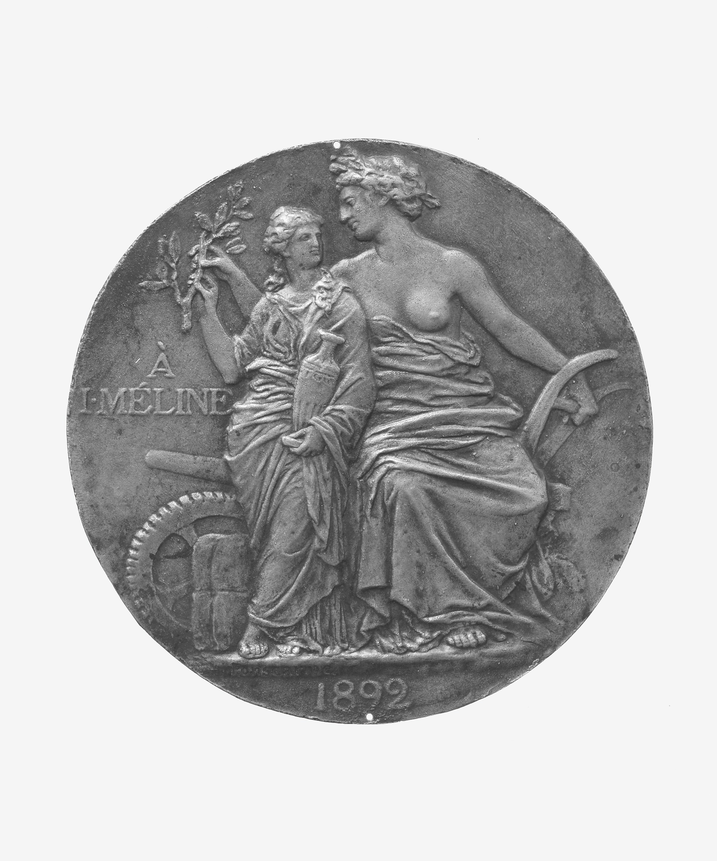 French; Medal; Medals and Plaquettes